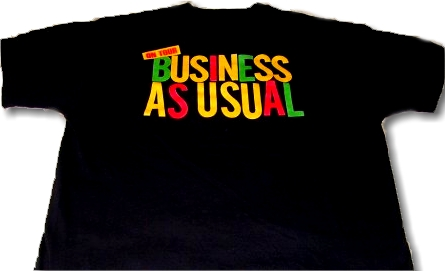 The reverse side of a promotional EPMD t-shirt for their album Business as Usual. The photograph was taken with an unknown digital camera and edited using ArcSoft PhotoStudio 5.5